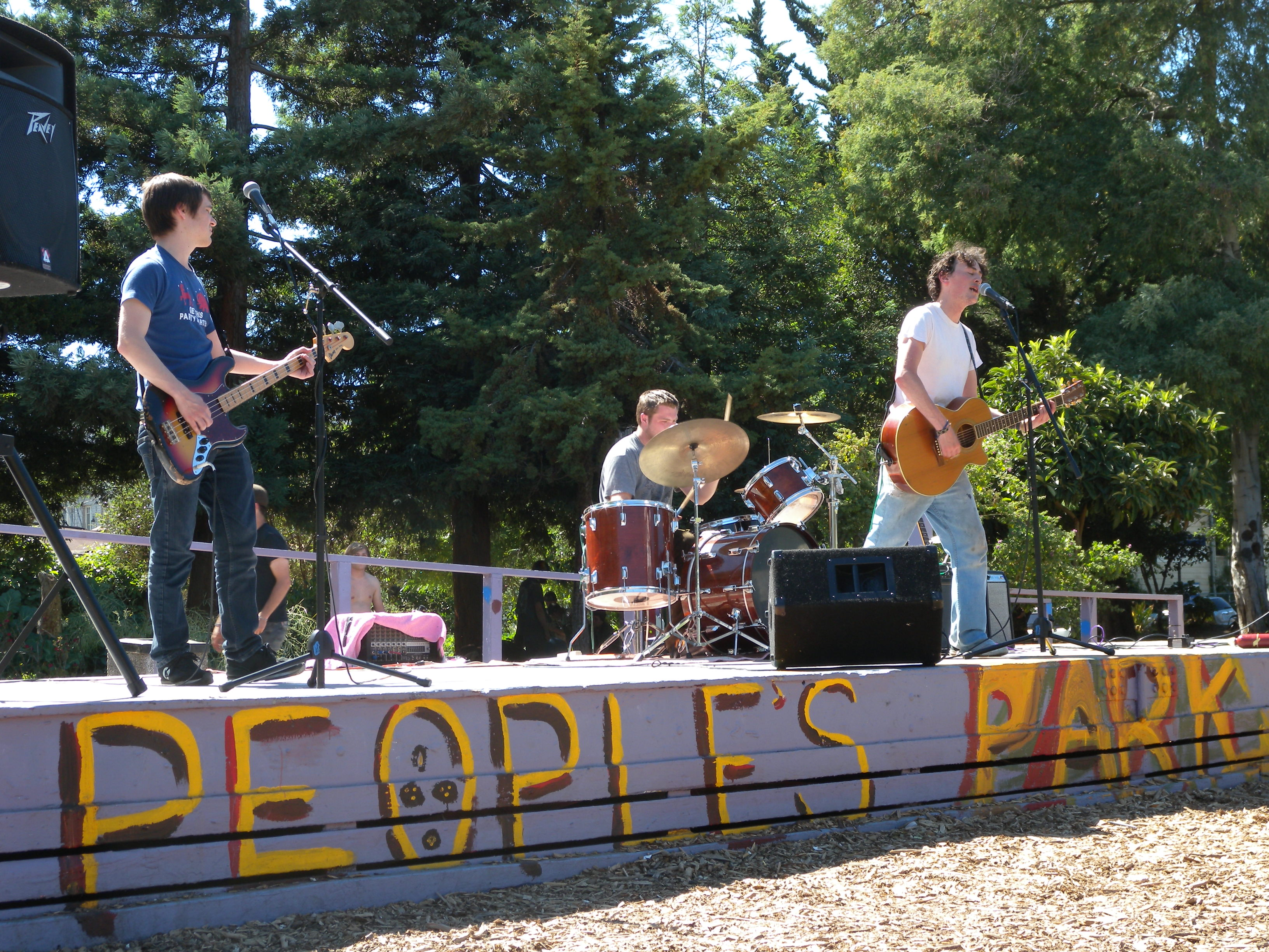 Dear Indugu plays at People's Park, Berkeley CA, June 12 2010